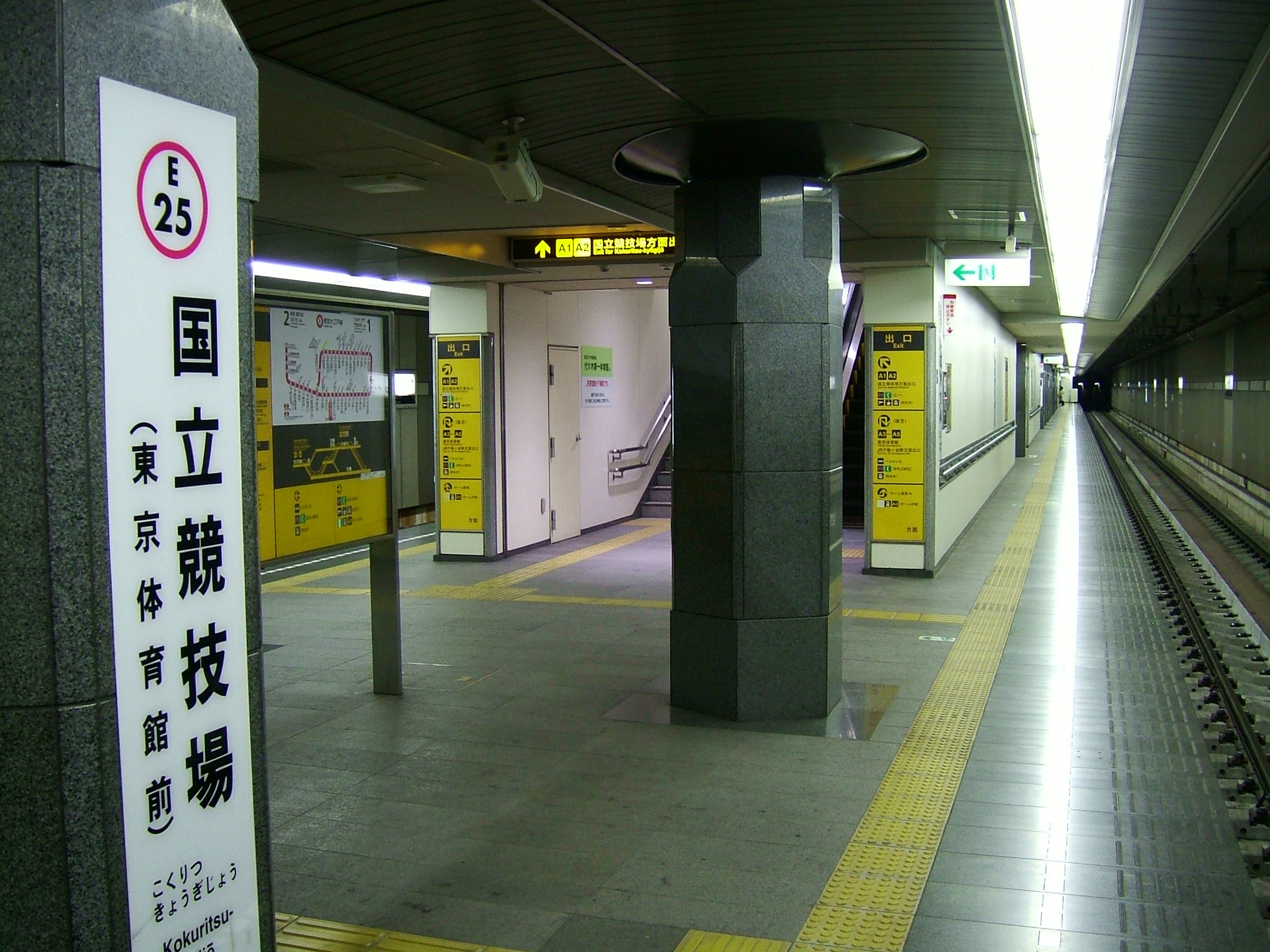 The platform at Kokuritsu-Kyōgijō Station on the Toei Ōedo Line in Shinjuku city, Tokyo, Japan